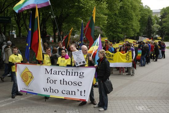 Baltic pride march demonstration in Riga